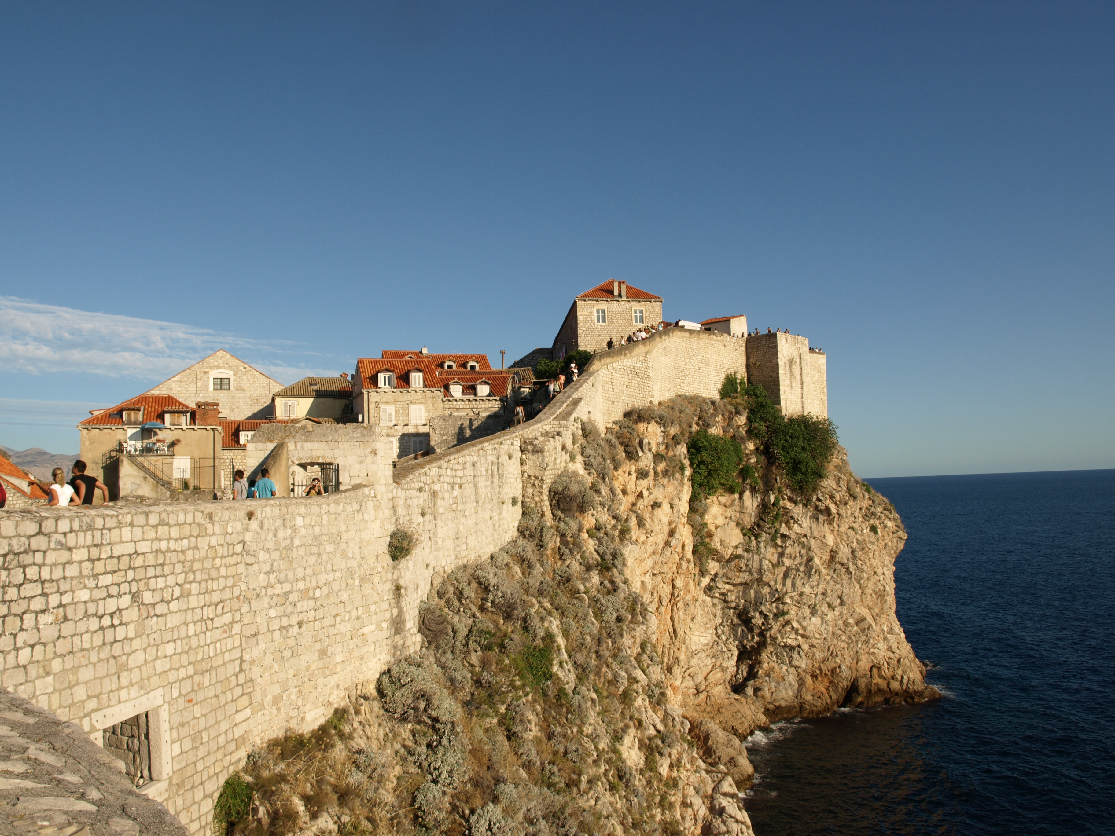 P8175737 Croatia